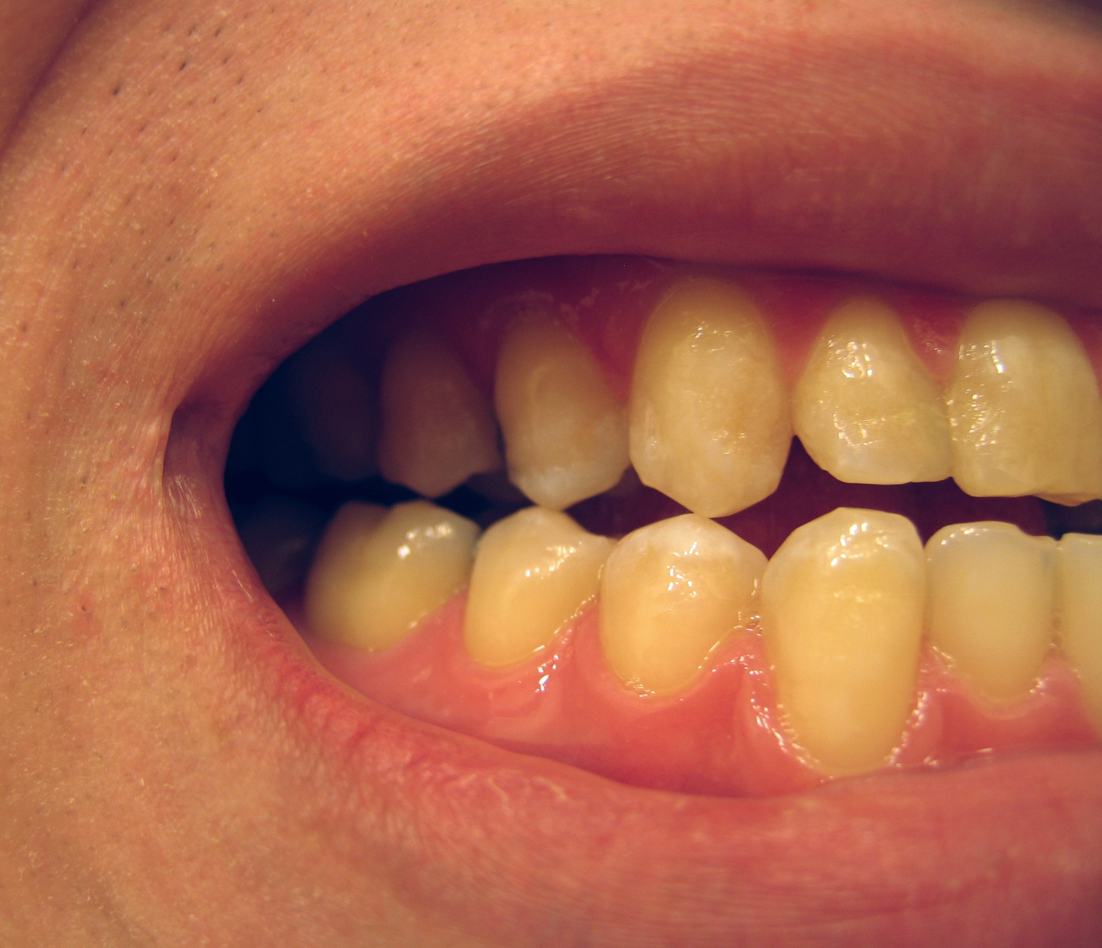 Cusp tips example